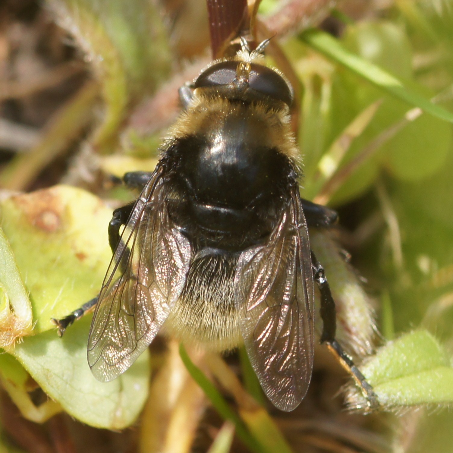 Male hoverfly Merodon equestris. Picture taken in Skåne, Sweden.